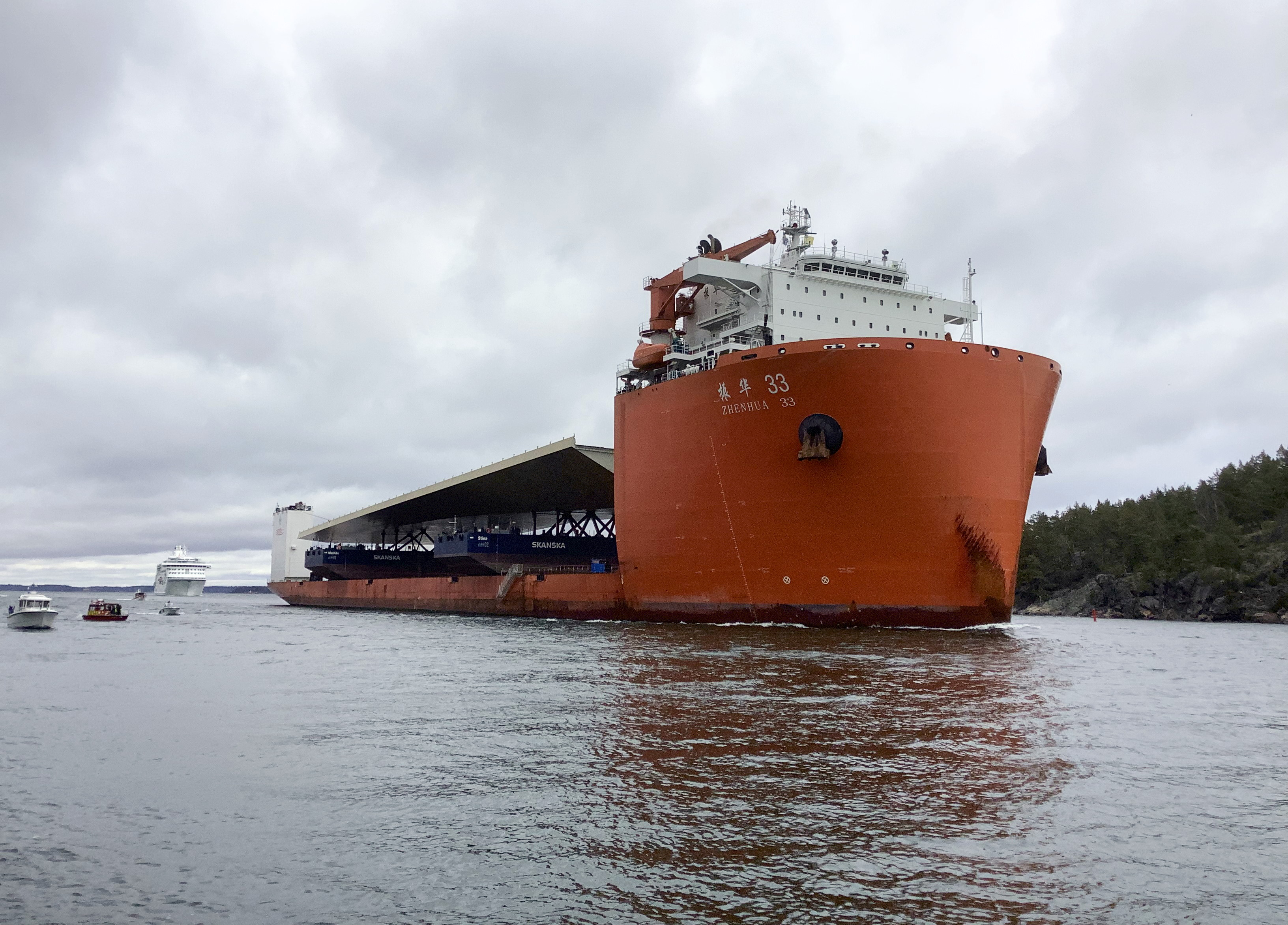 Zhen Hua 33 at Oxdjupet by Oscar-Fredriksborg on her way to Slussen in Stockholm on March 11, 2020.